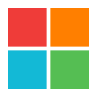 DVDVideoSoft current logo, introduced on July 19, 2013.